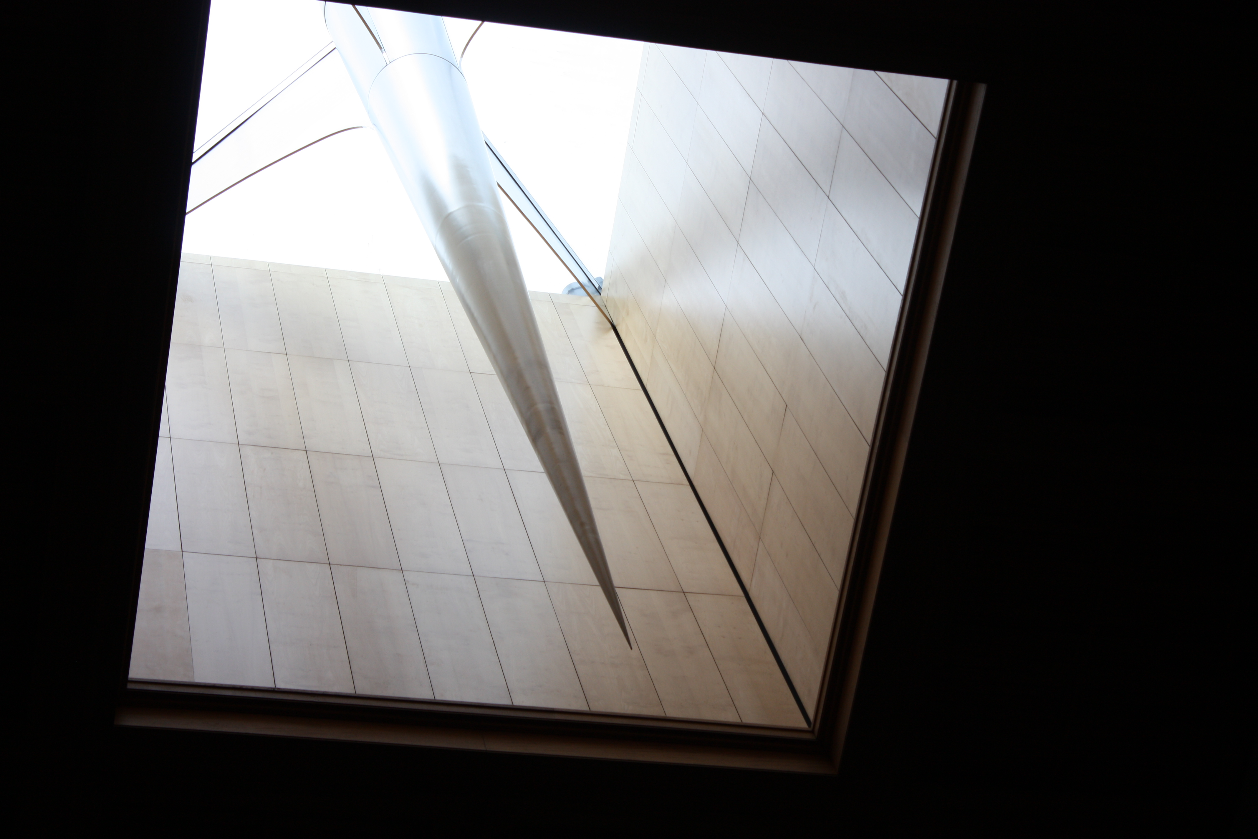 Spire, St Anne's Cathedral, Donegall Street, Belfast, July 2010